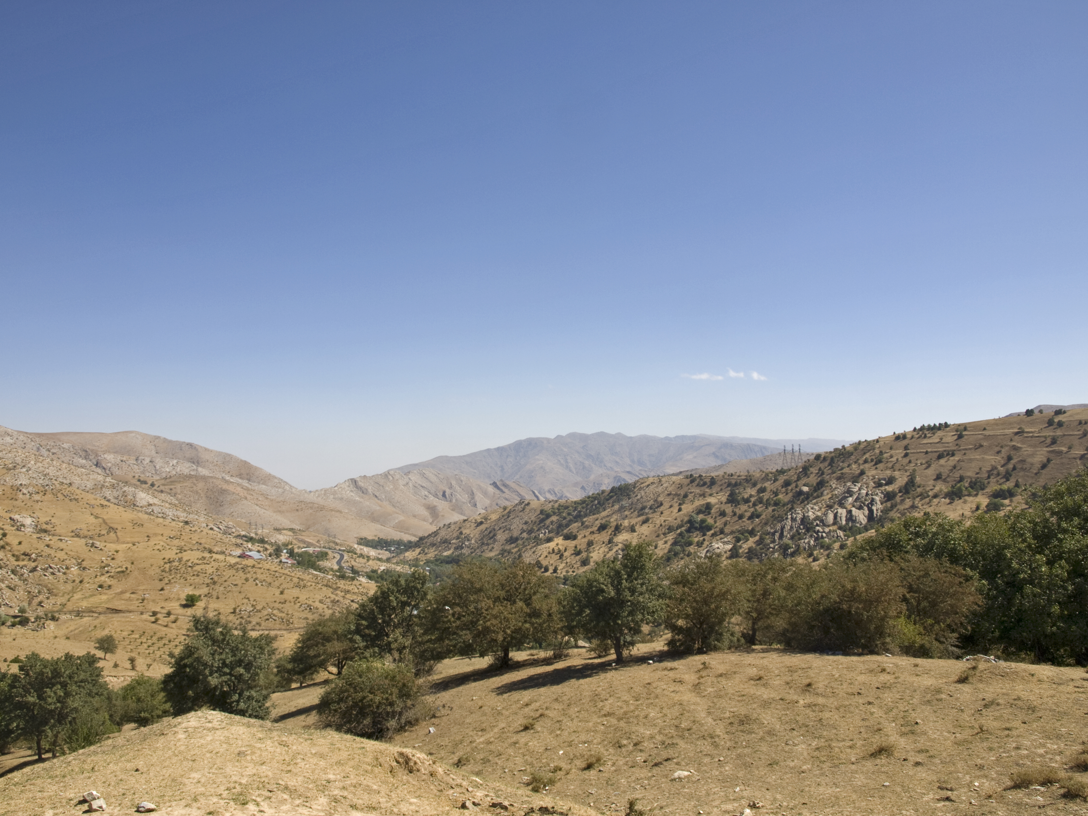 View from Takhta-Karacha Pass (between Samarkand and Shakhrisabz) to the north